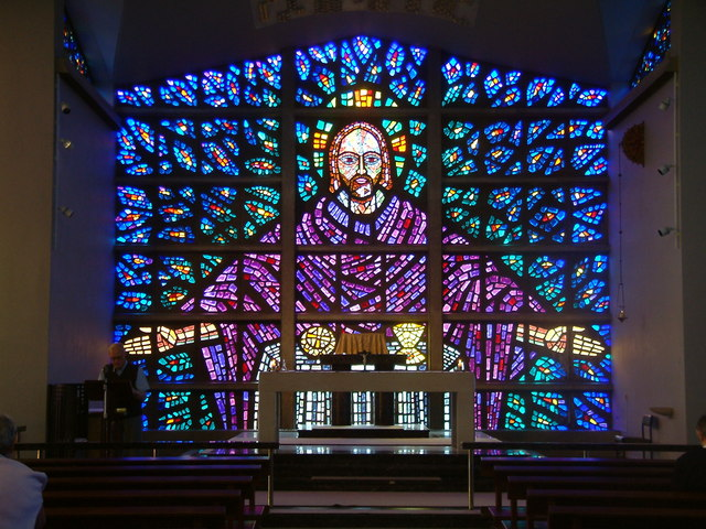 Stained Glass Window at Buckfast Abbey. This is an amazing sight when you see it for the first time - especially if the sunlight happens to be shining on it from outside.